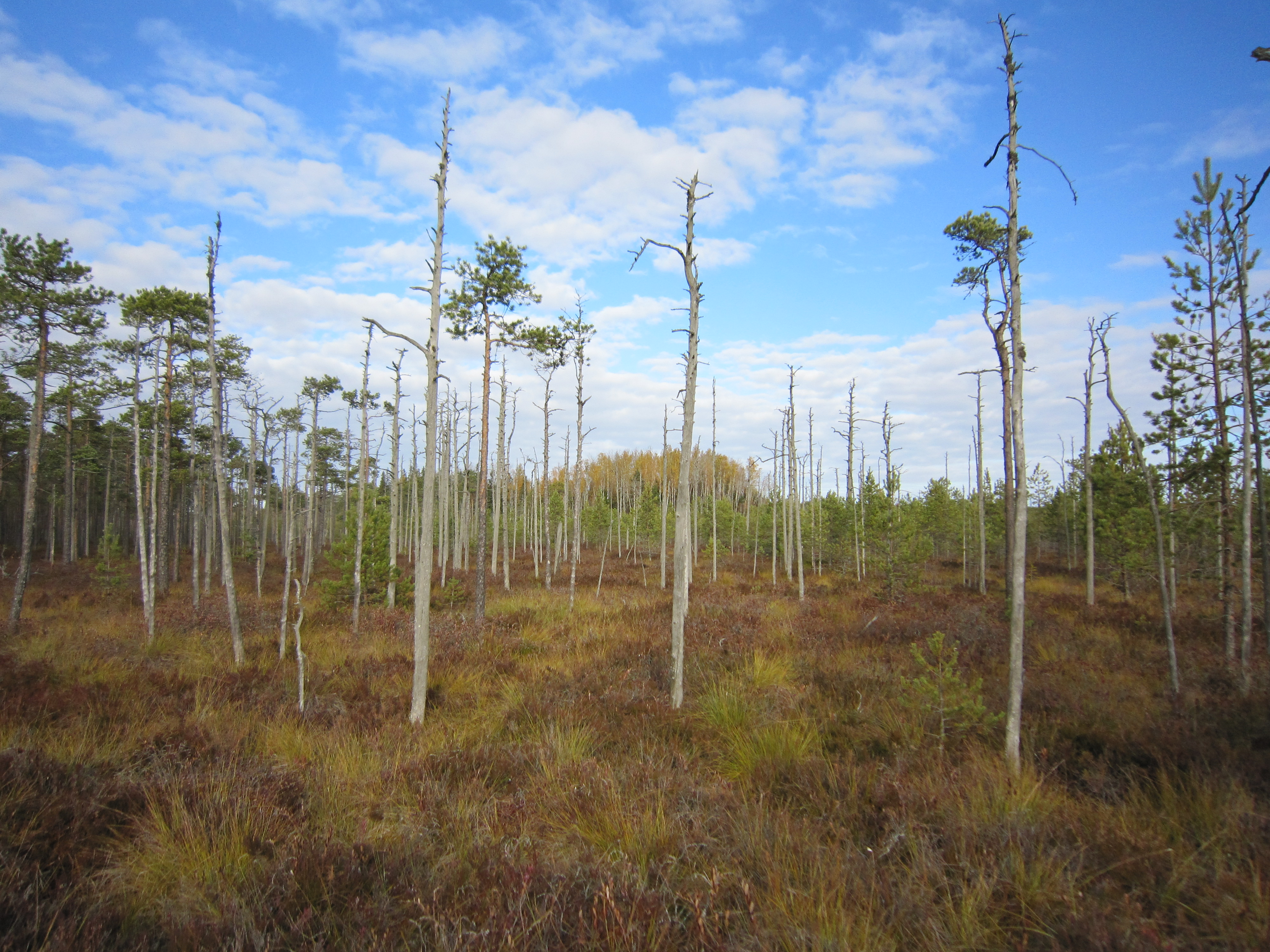 Pähklisaare MKA